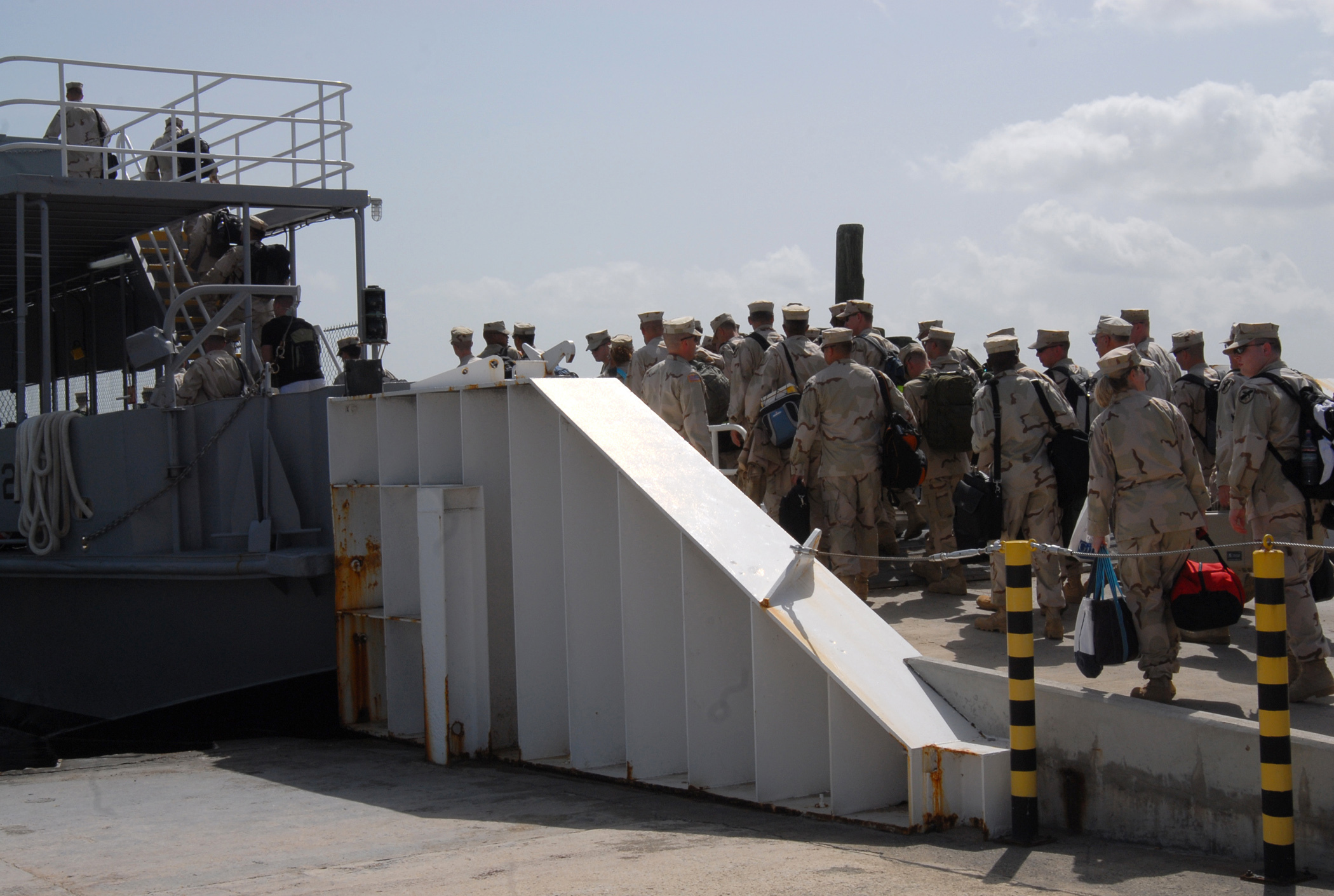 U.S. Coast Guardsmen from Port Security Unit 305, based at Fort Eustis, Va., board a ferry to leave U.S. Naval Station Guantanamo Bay after completing a six-month tour of duty in support of Joint Task Force Guantanamo, May 30. PSU 305 provided maritime security around the waters of Guantanamo Bay. JTF Guantanamo conducts safe, humane, legal and transparent care and custody of detainees, including those convicted by military commission and those ordered released. The JTF conducts intelligence collection, analysis and dissemination for the protection of detainees and personnel working in JTF Guantanamo facilities and in support of the Global War on Terror. JTF Guantanamo provides support to the Office of Military Commissions, to law enforcement and to war crimes investigations. The JTF conducts planning for and, on order, responds to Caribbean mass migration operations.